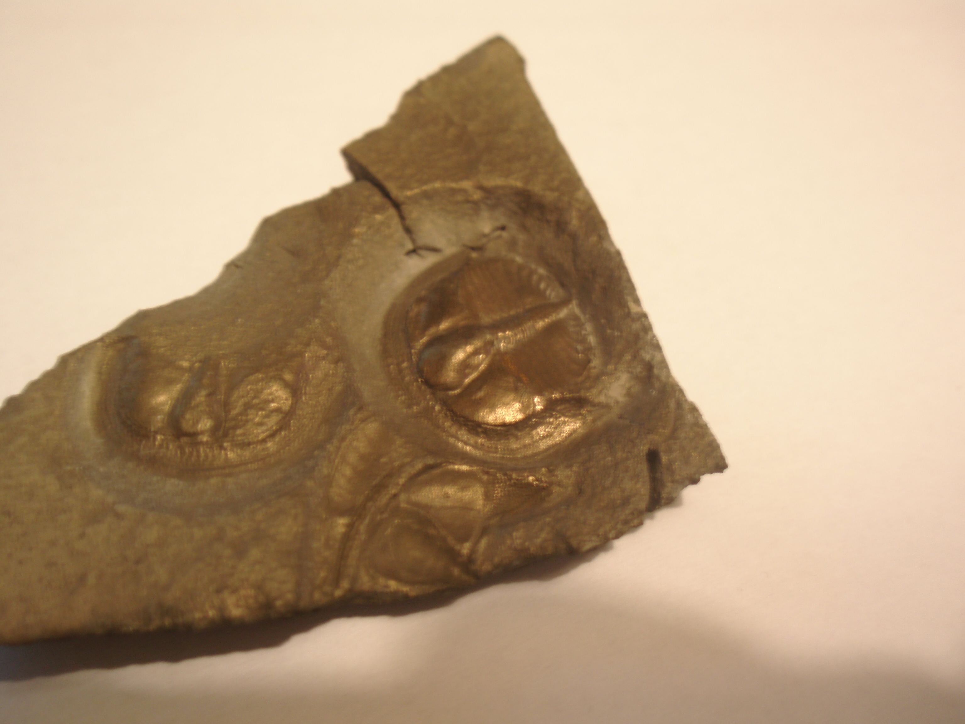 Pyritized Lloydolithus lloydi fossil from lower Ordovician